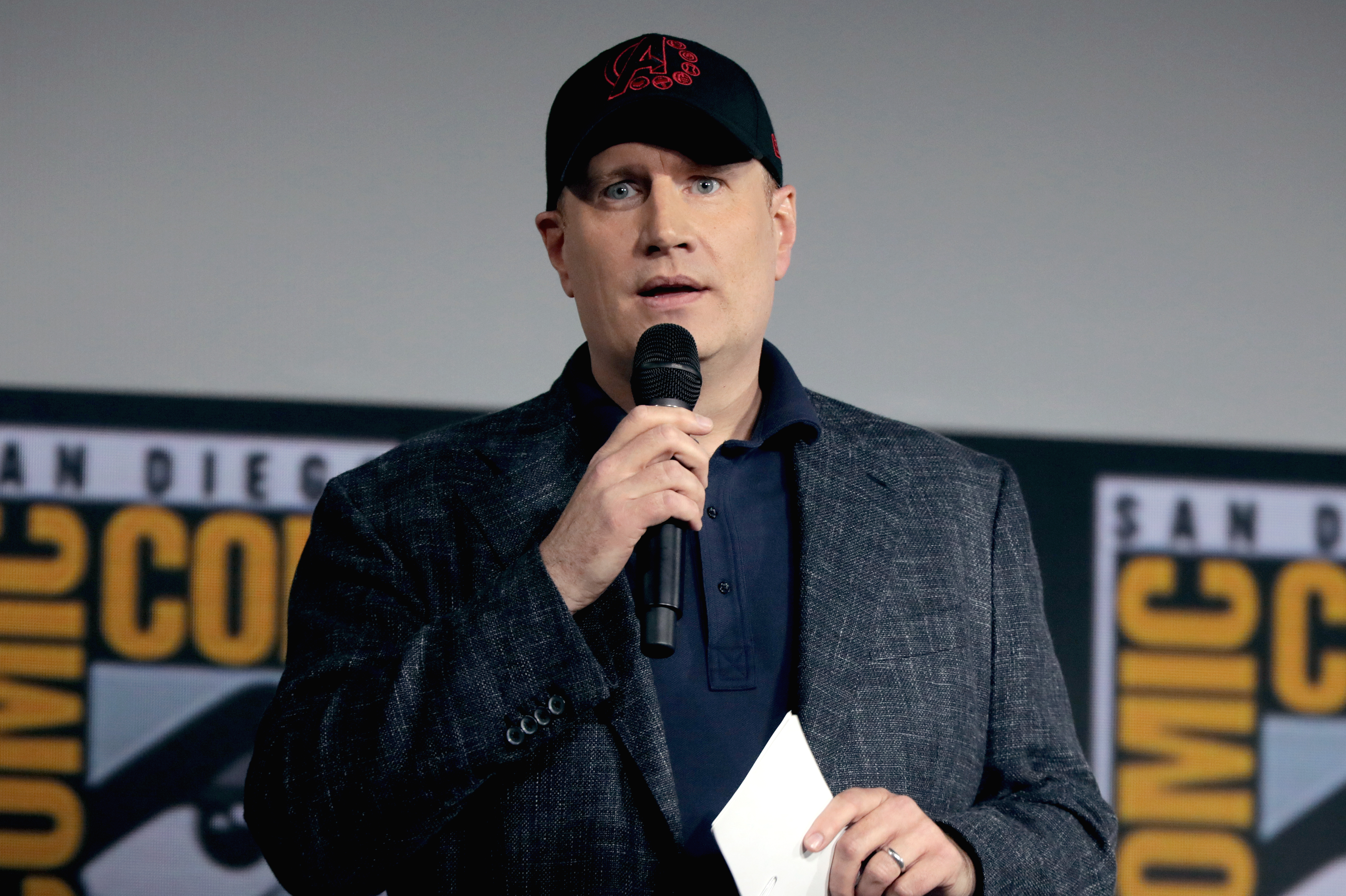 Kevin Feige speaking at the 2019 San Diego Comic Con International, for "The Eternals", at the San Diego Convention Center in San Diego, California.